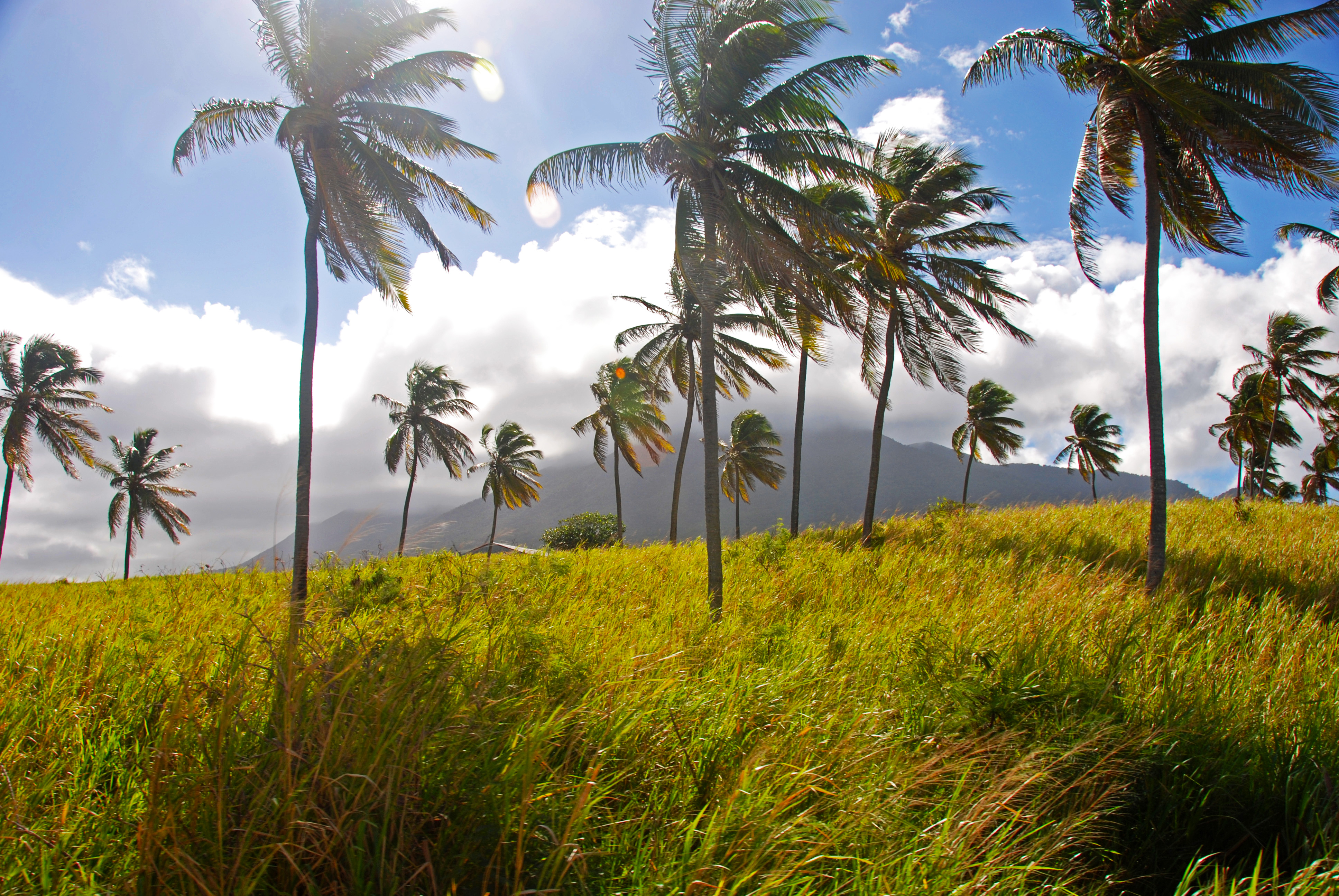 St. Kitts grasslands and palm trees